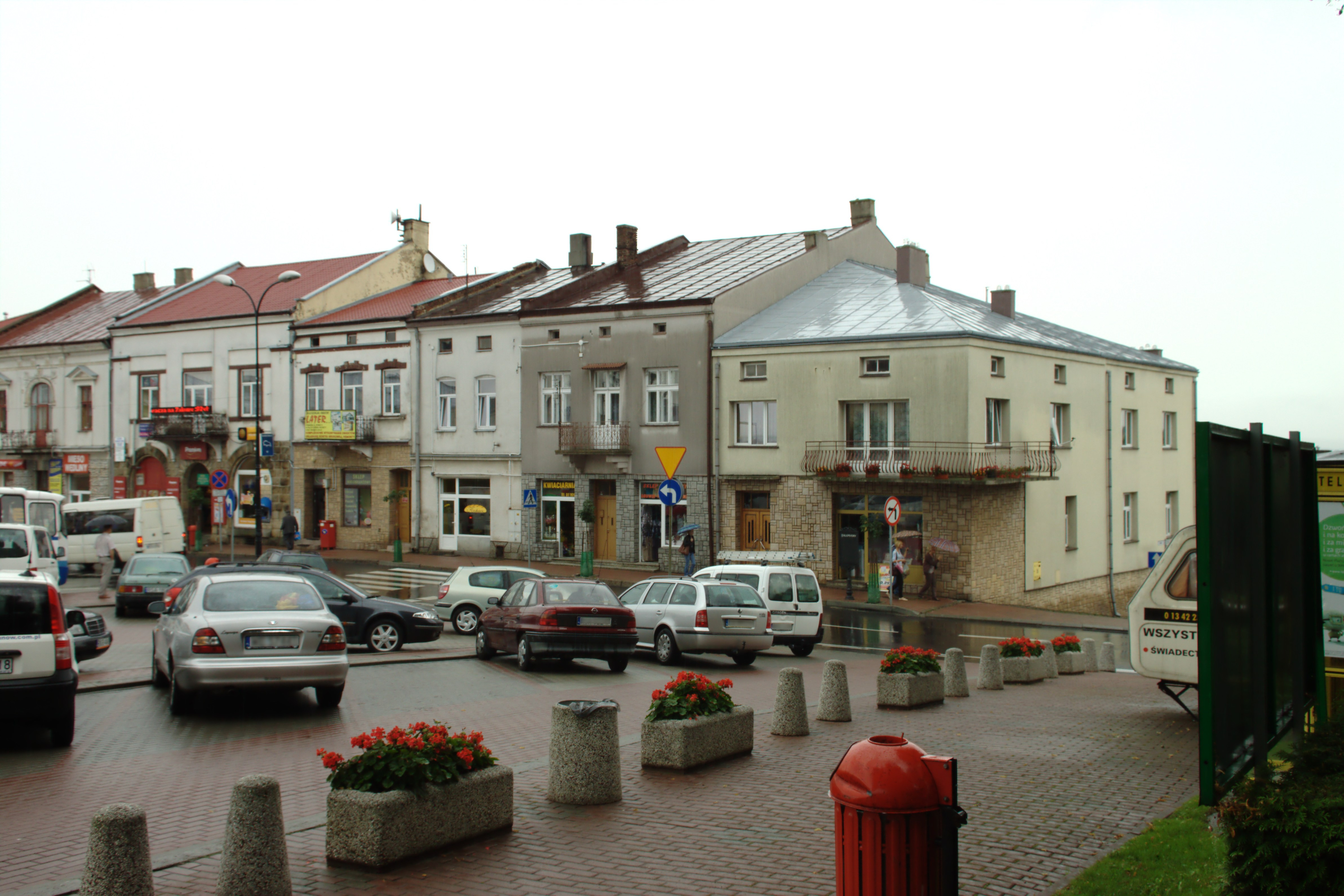 Southern edge of the main square in the town of Rymanów, Podkarpackie voivodeship, PL This photo of Subcarpathian Voivodeship was taken during Wikiekspedycja 2011 set up by Wikimedia Polska Association.You can see all photographs in category Wikiekspedycja 2011. The making of this document was supported by Wikimedia Polska.